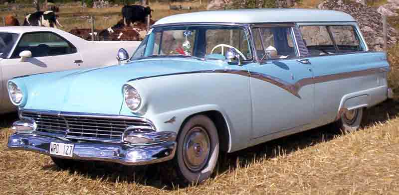 1956 Ford Parklane Stationwagon